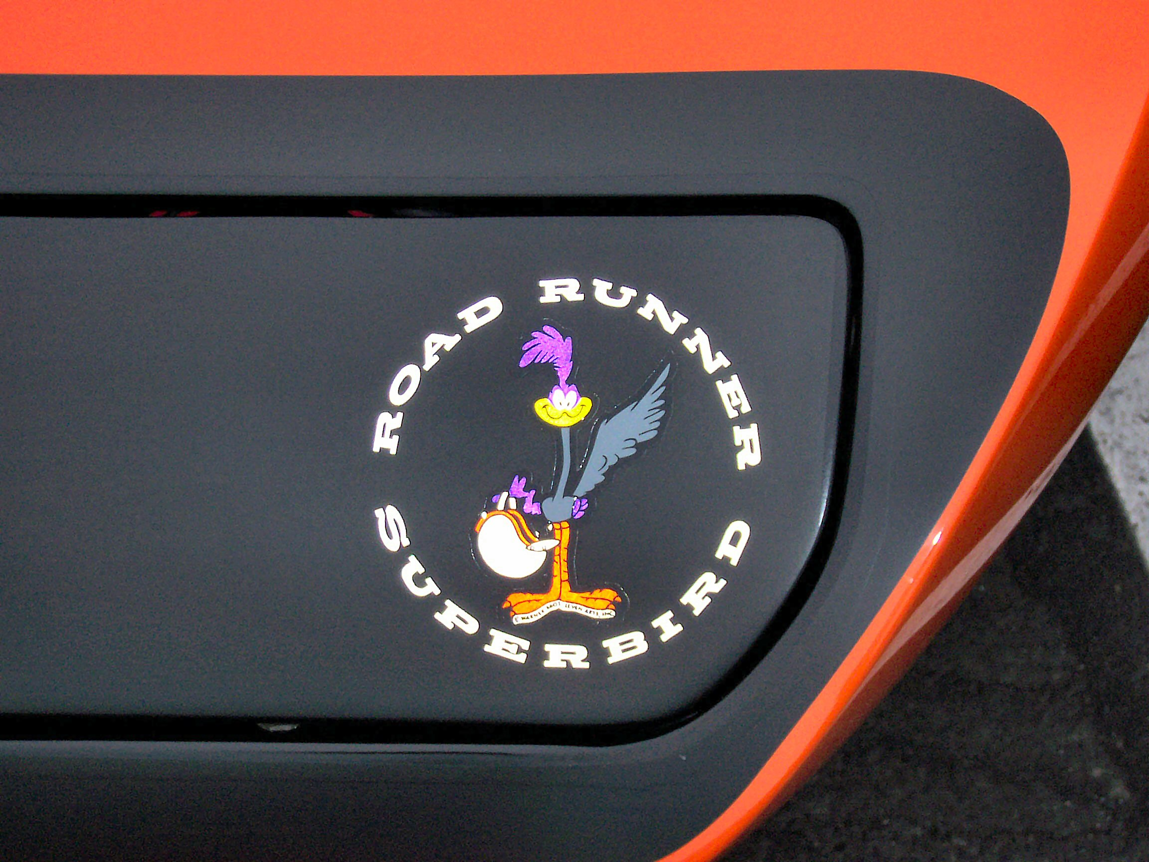 Decal on the left-hand headlight door on a Plymouth Superbird.